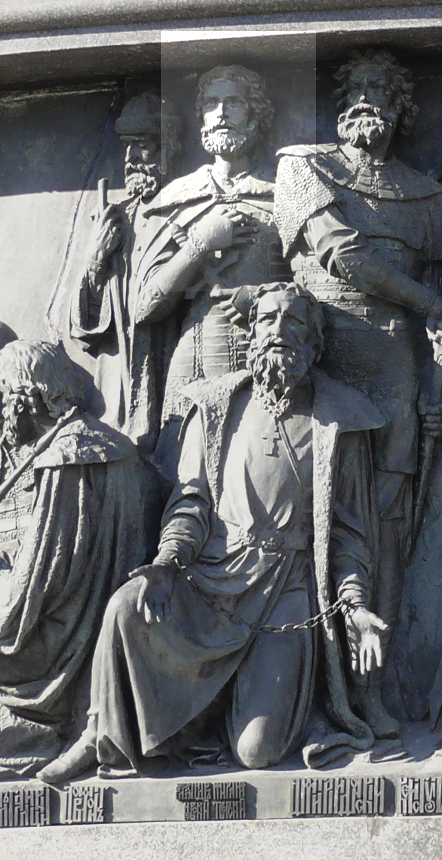 Alexander Nevsky on the Monument «Millennium of Russia» in Veliky Novgorod